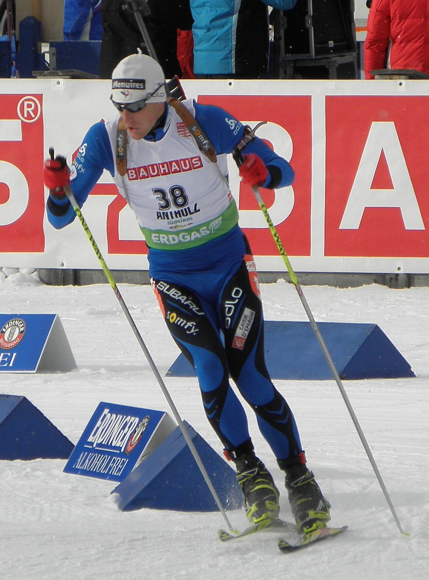 Vincent Jay in Antholz, 21-01-2010